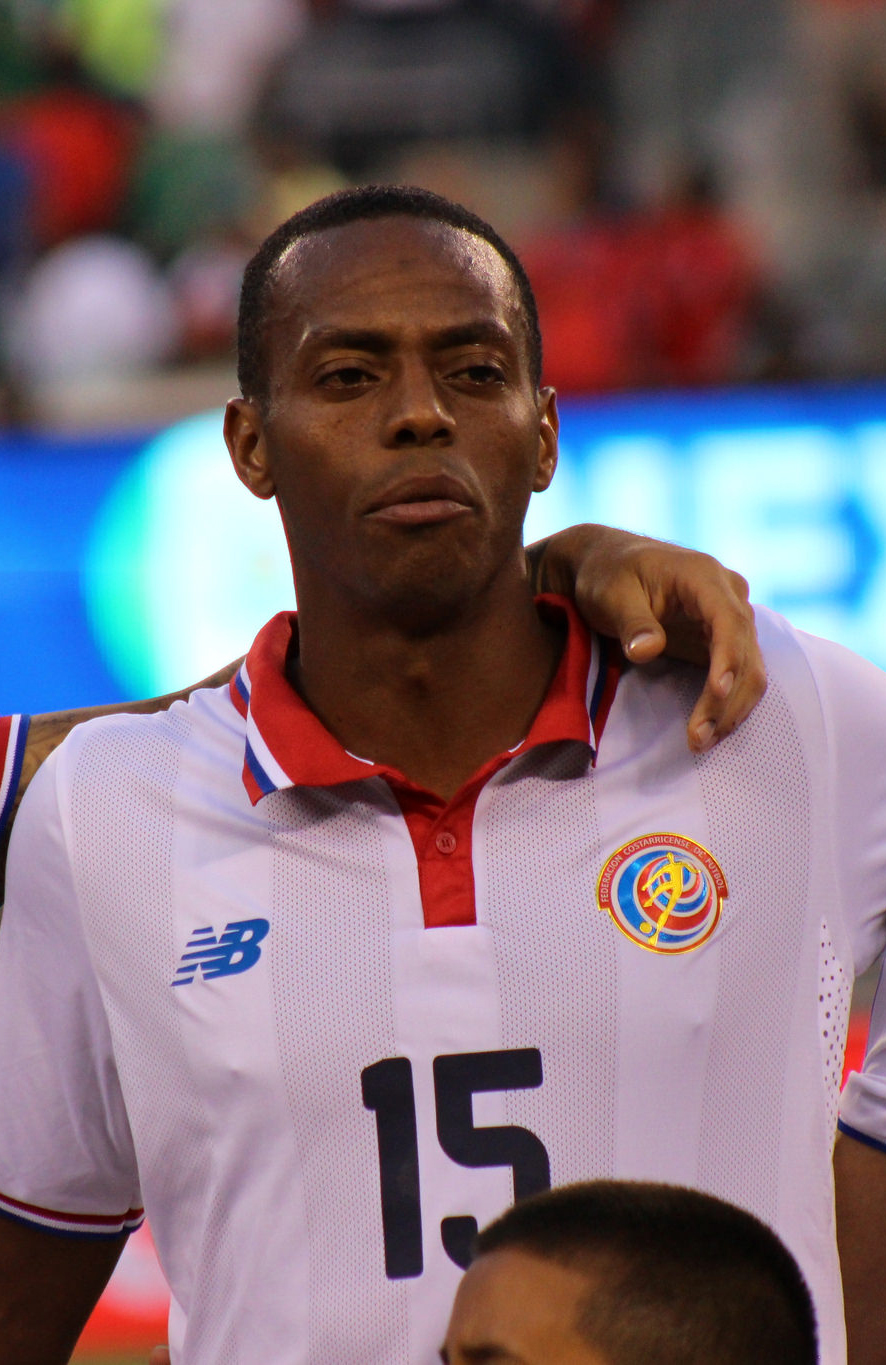 Costa Rican player Junior Díaz. The image is a crop from the original found in Flickr